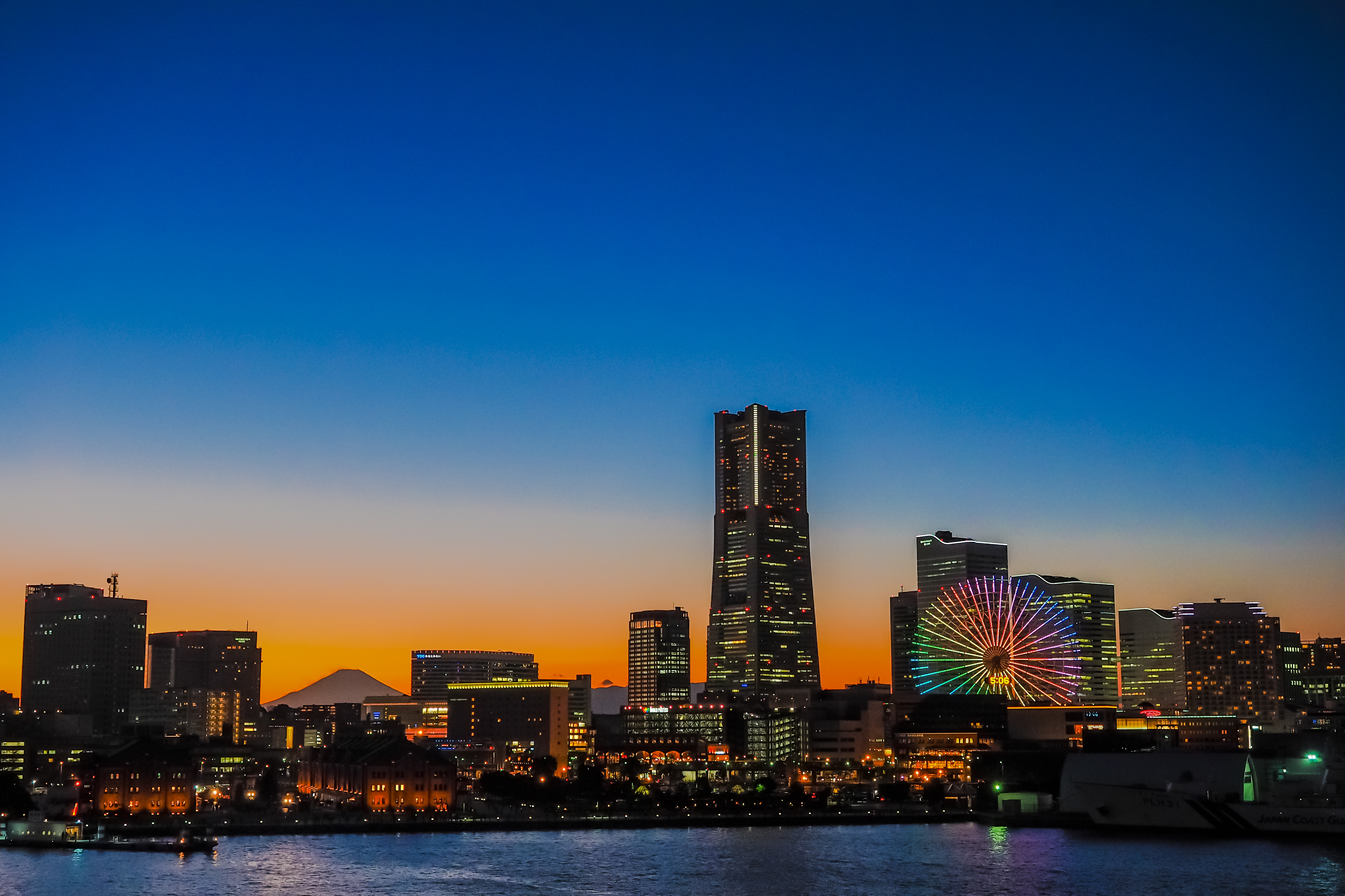 Yokohama cityscape at dawn, taken at Osanbashi Pier, Yokohama, Japan.